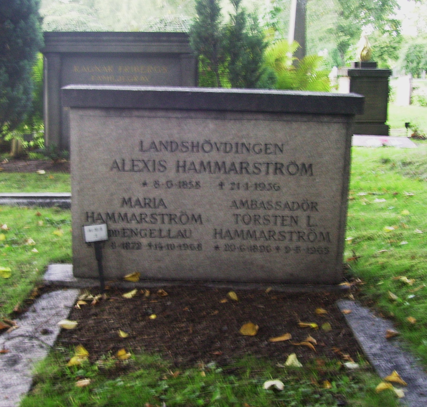 Picture of Alexis Hammarströms grave at Norra begravningsplatsen in Stockholm